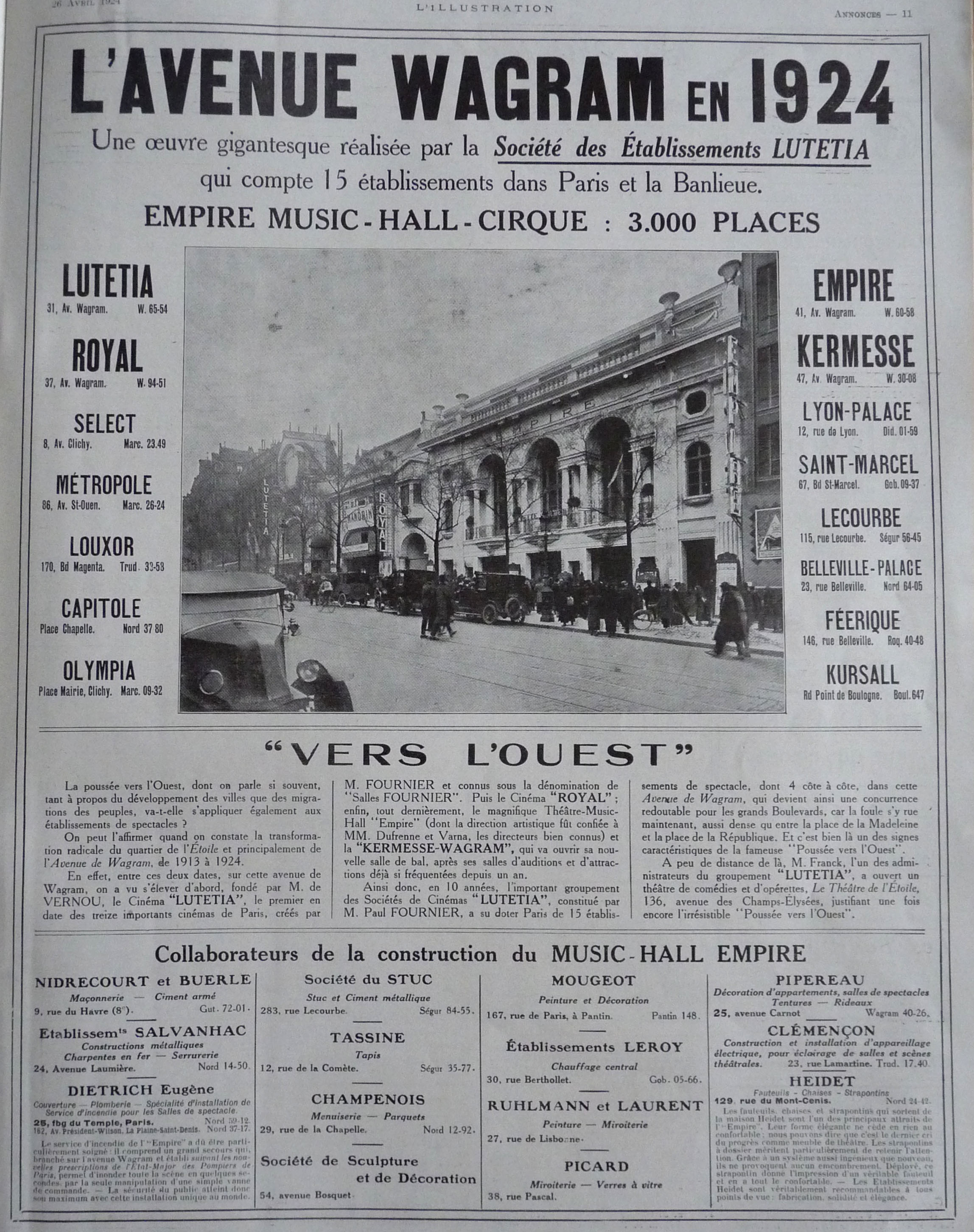 Avenue Wagram : advertisement of 1924